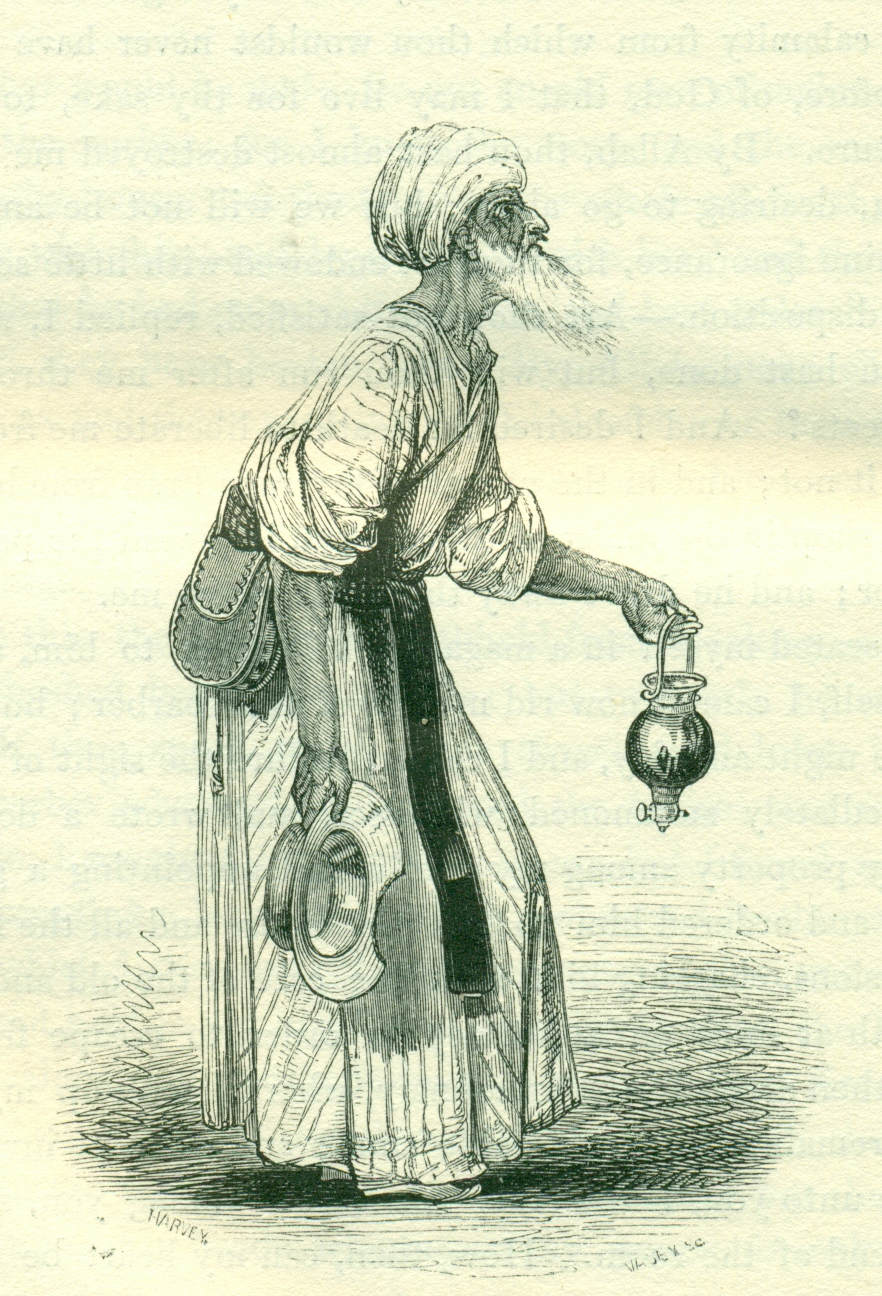 Woodcut Illustration to The Story told by the Tailor from the Arabian Nights